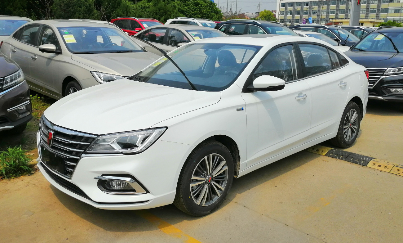 Roewe i5 photographed in Shanghai, China.